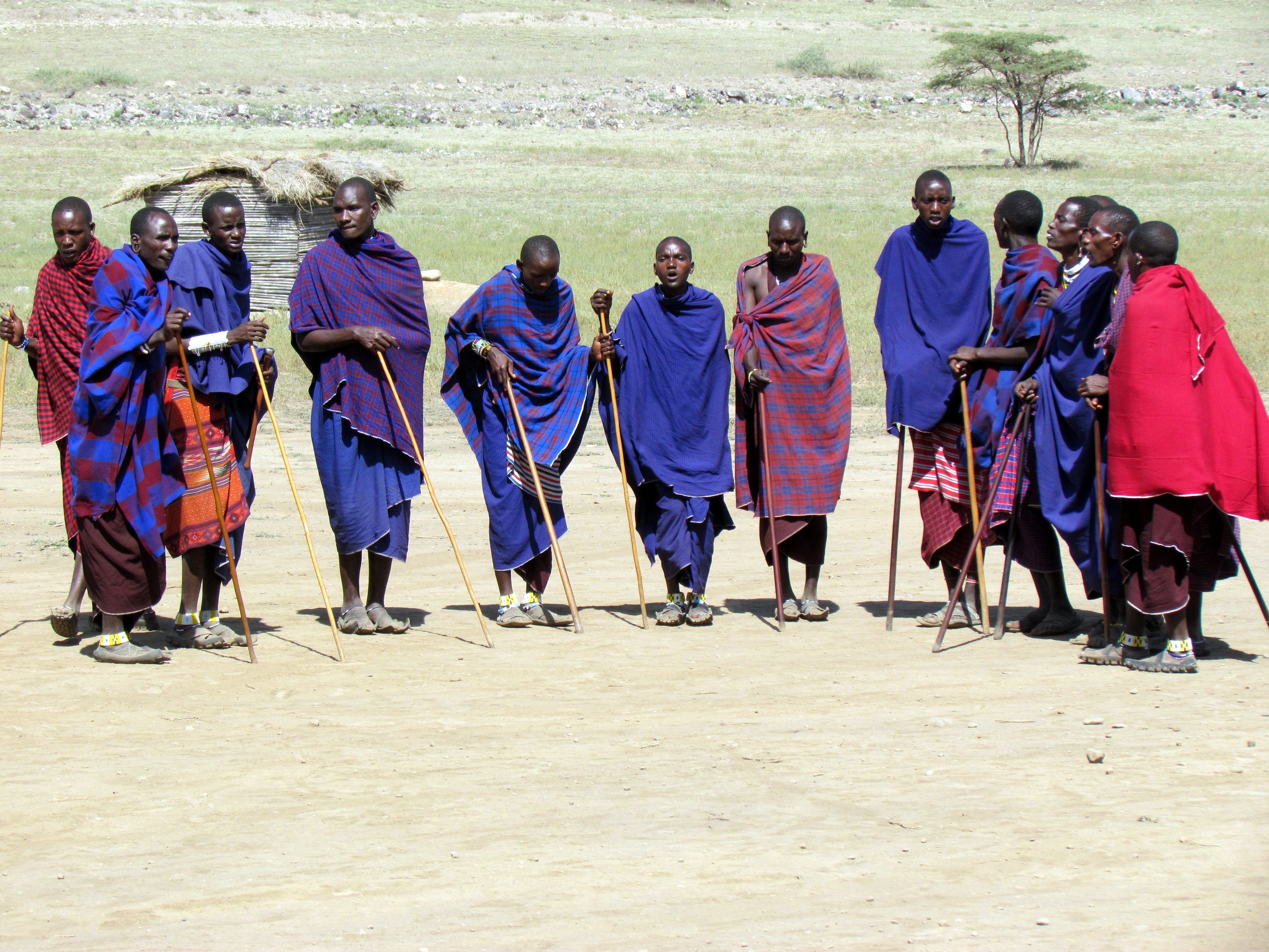 A visit to a community of Maasai / Masai people in the Ngorongoro area of Tanzania by the Serengeti - Africa (cc) David Berkowitz /